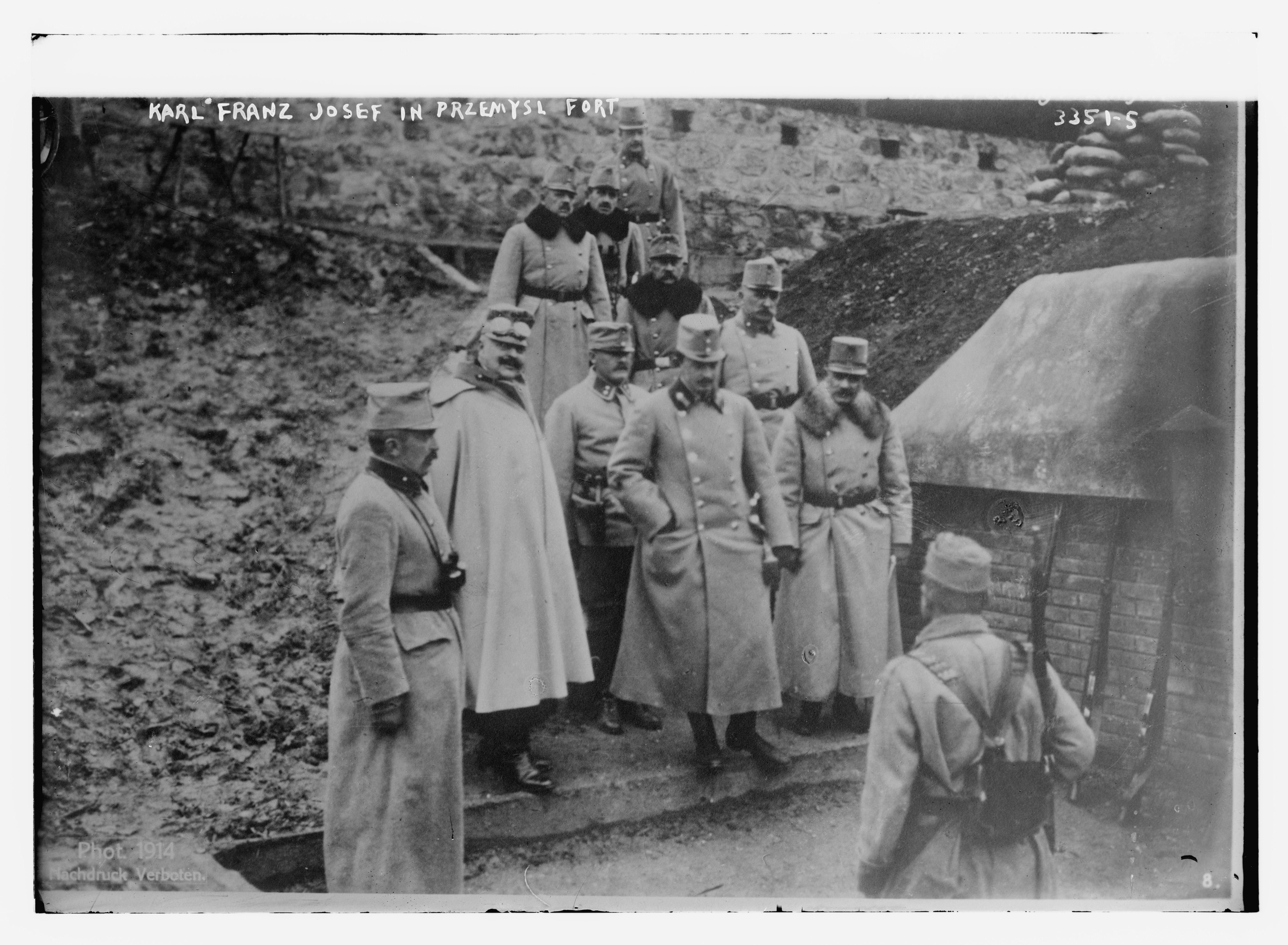 Title: Karl Franz Josef in Przemysl Fort Abstract/medium: 1 negative : glass ; 5 x 7 in. or smaller.